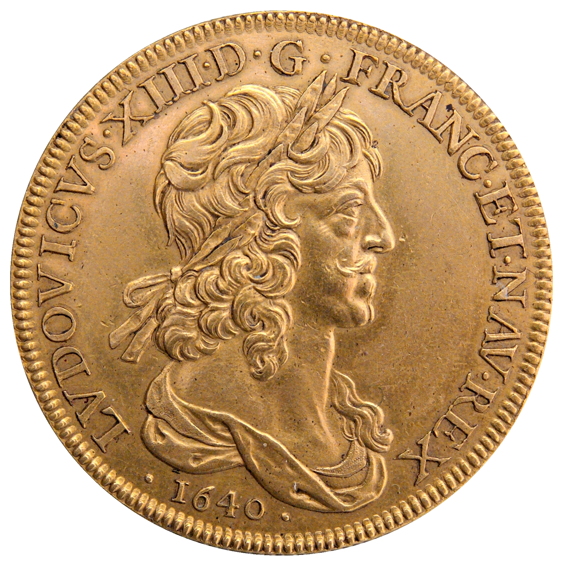 Gold ten-louis coin of Louis XIII, draped bust, Paris mint, 1640.